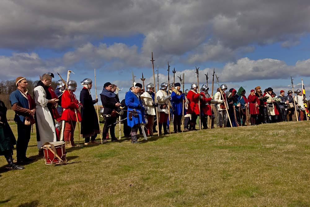 Reenactment actors assemble before Battle of Towton 2010